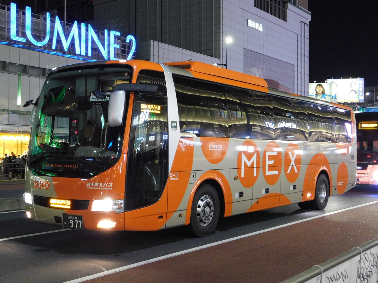 Mitsubishi Fuso Aero Ace (2TG-MS06GP) operated by Iwate Kenpoku Bus Nanbu branch (Nanbu Bus)